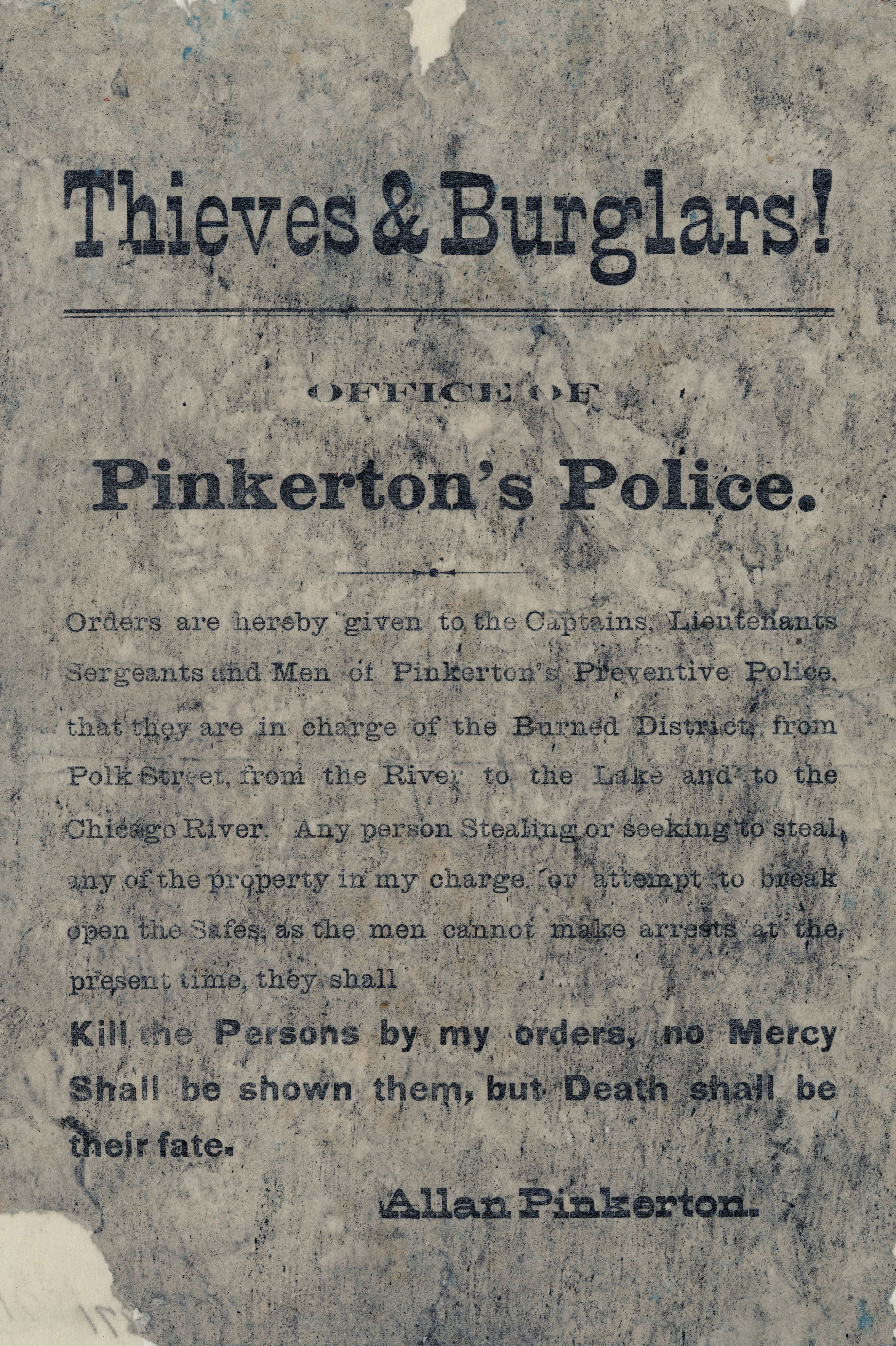 Pinkerton Preventive Police Flyer, Chicago, 1871